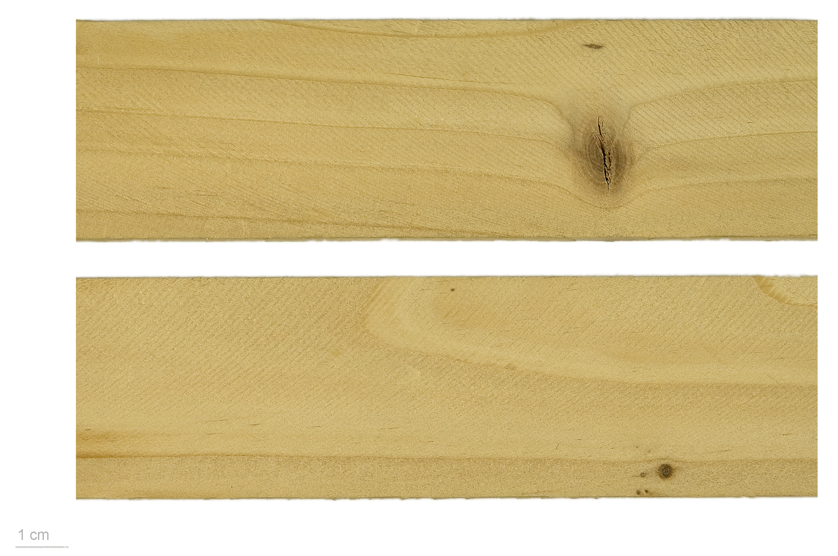 European spruce , wood